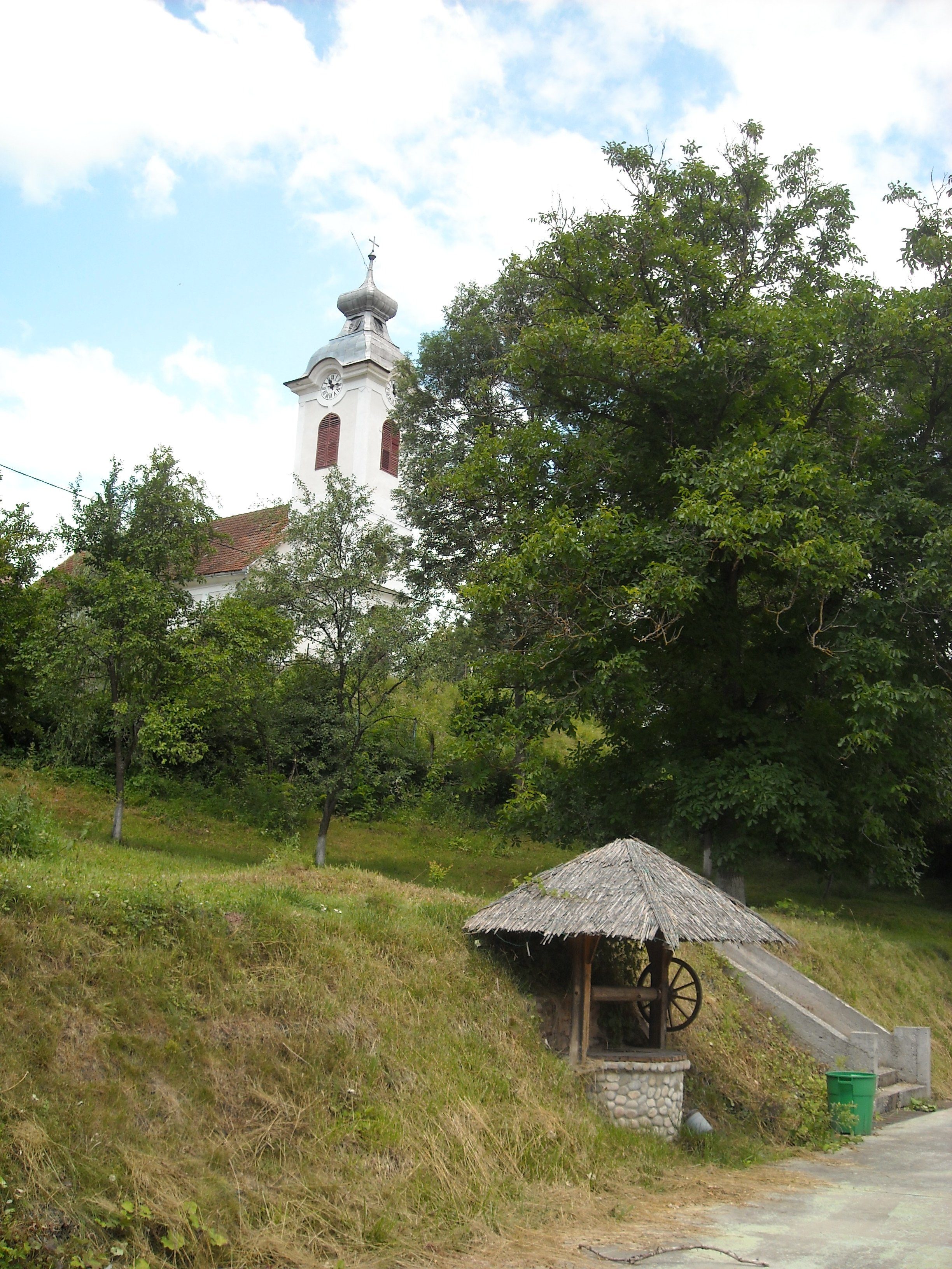 Roman Catholic Church in Băița/Boica, Romania